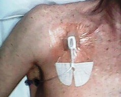 Gripper needle inserted in port-a-cath located right shoulder of elderly male patient, and secured with butterfly bandage